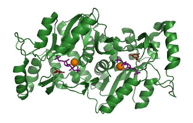 Orotate phosphoribosyltransferase bound to its substrates. From PDB file 2PSI. S cerevisiae enzyme